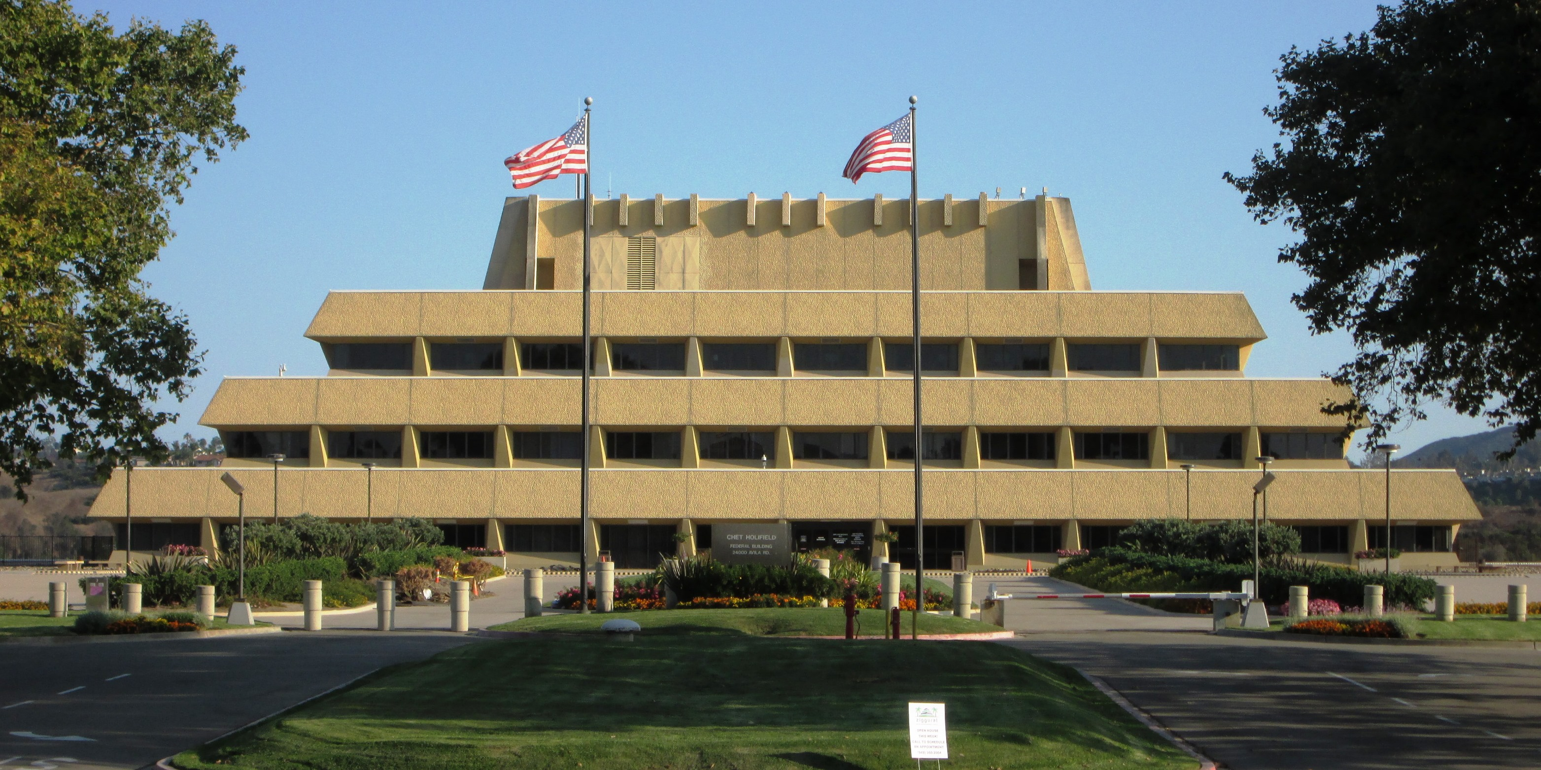 The Chet Holifield Federal Building, colloquially known as "the Ziggurat Building", is a United States government building at 24000 Avila Road in Laguna Niguel, California built between 1968 and 1971, originally for Rockwell International, and designed by William Pereira. It is managed by the General Services Administration.